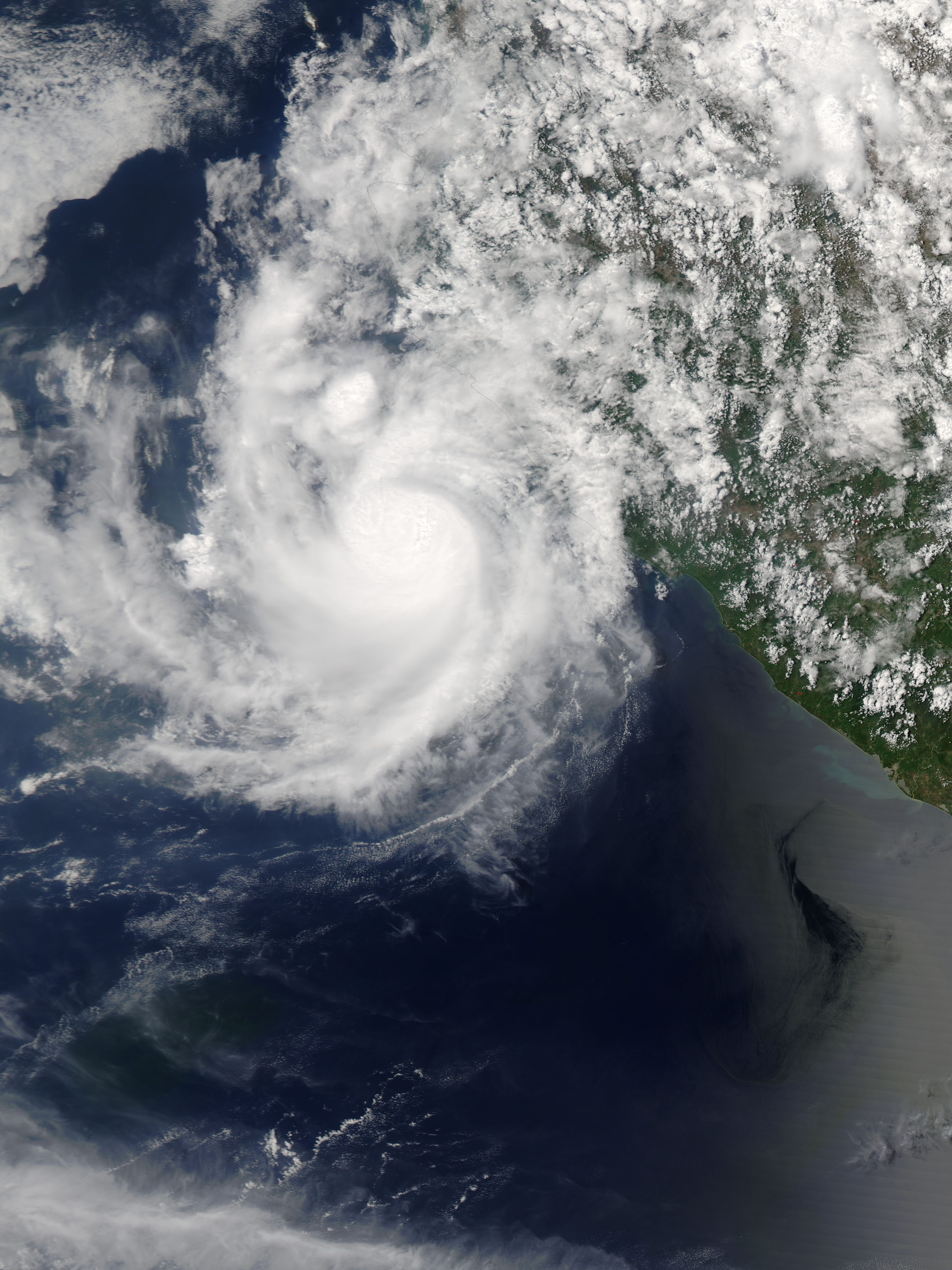 Hurricane Carlos near its second peak intensity on June 16, 2015.